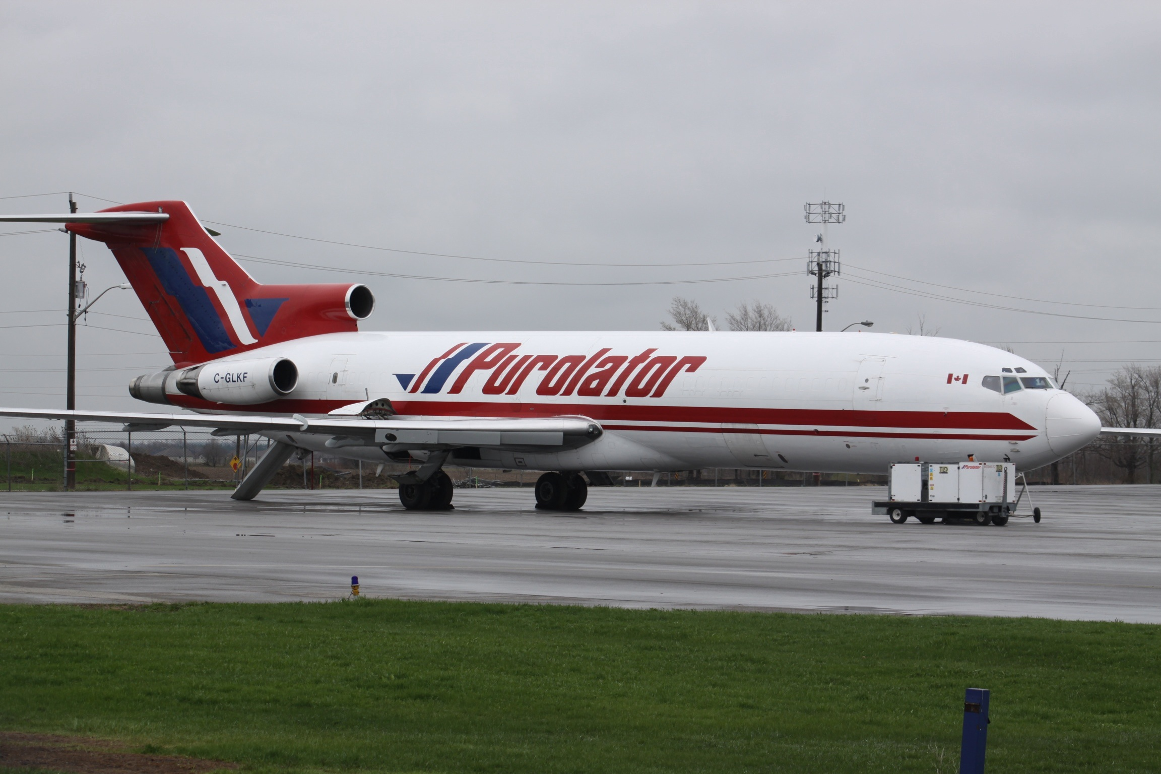 At Hamilton John C. Munro International